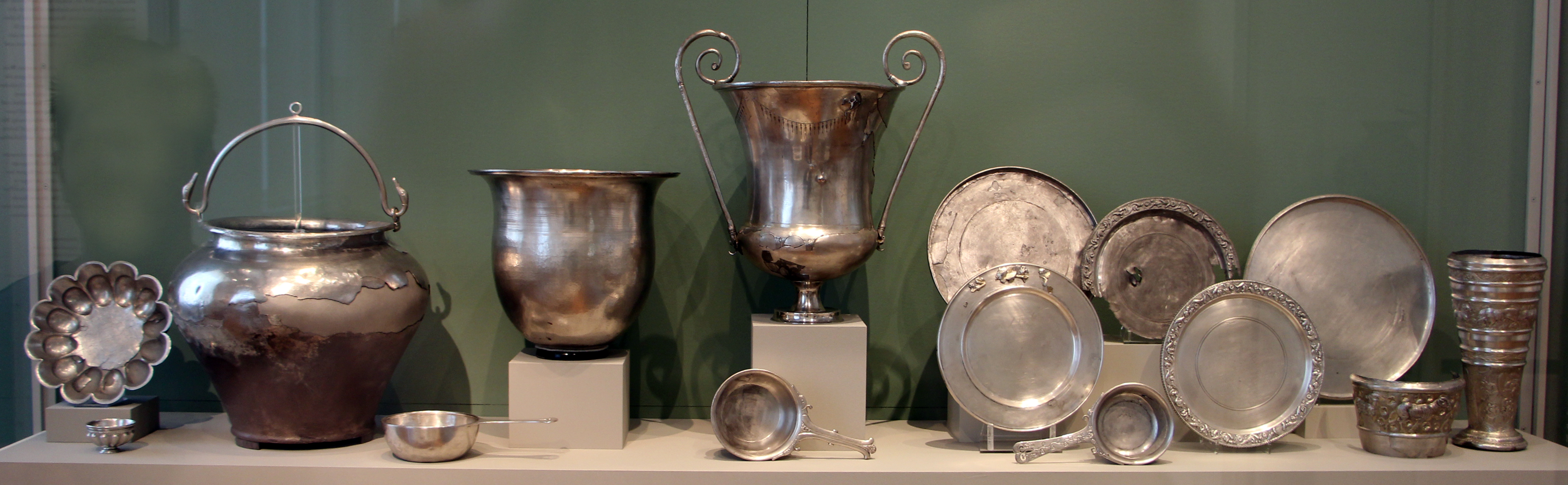 Hildesheim Treasure